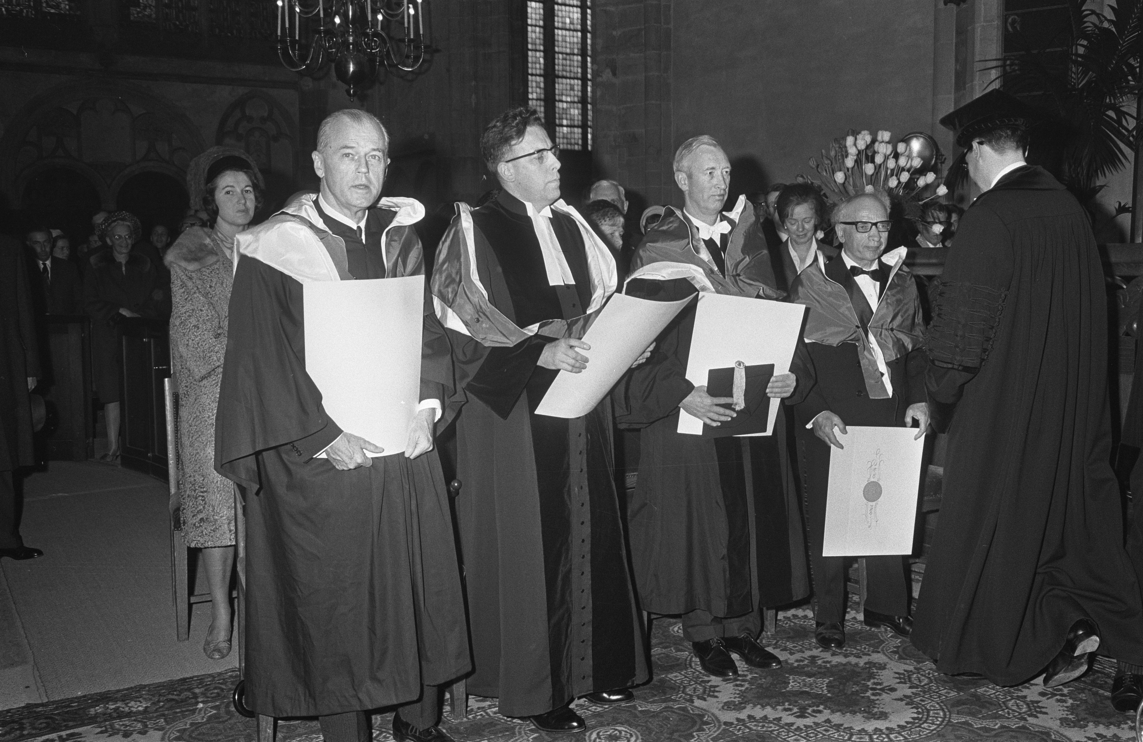 Honorary doctorates Utrecht University (the Netherlands), 19 April 1966. Left to right: Robert Van de Graaff, Willem Barnard (=Guillaume van der Graft), Paul Zamecnik, Alfred Sauvy.